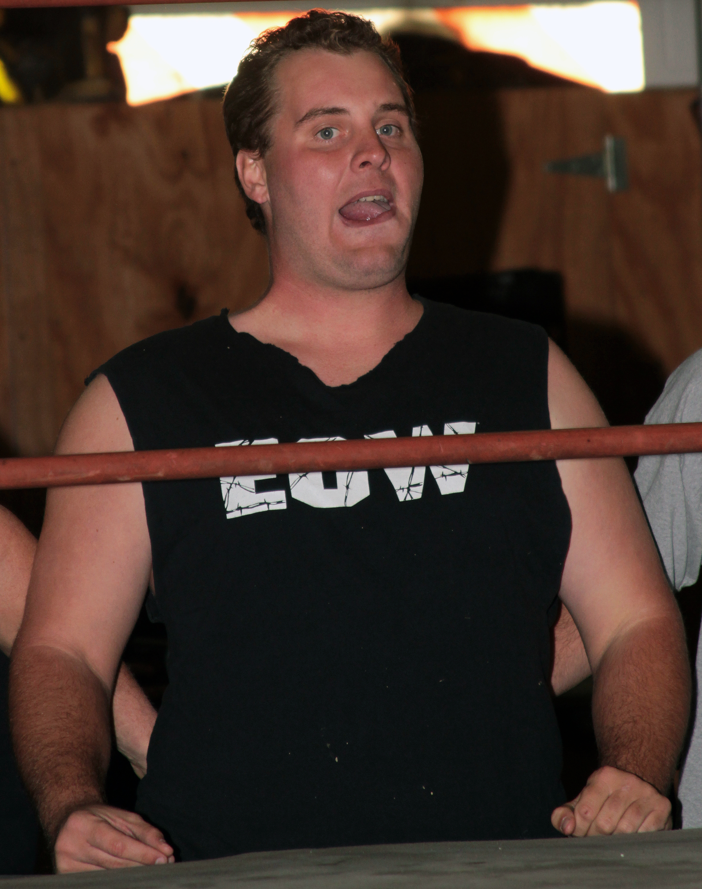 Tyler Fullington, son of professional wrestler Jim "The Sandman" Fullington and valet Lori "Peaches" Fullington, at the Atomic Championship Wrestling event in Stevens, Pennsylvania on November 7, 2015.